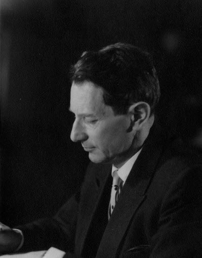 Michael Stettler (1913-2003).